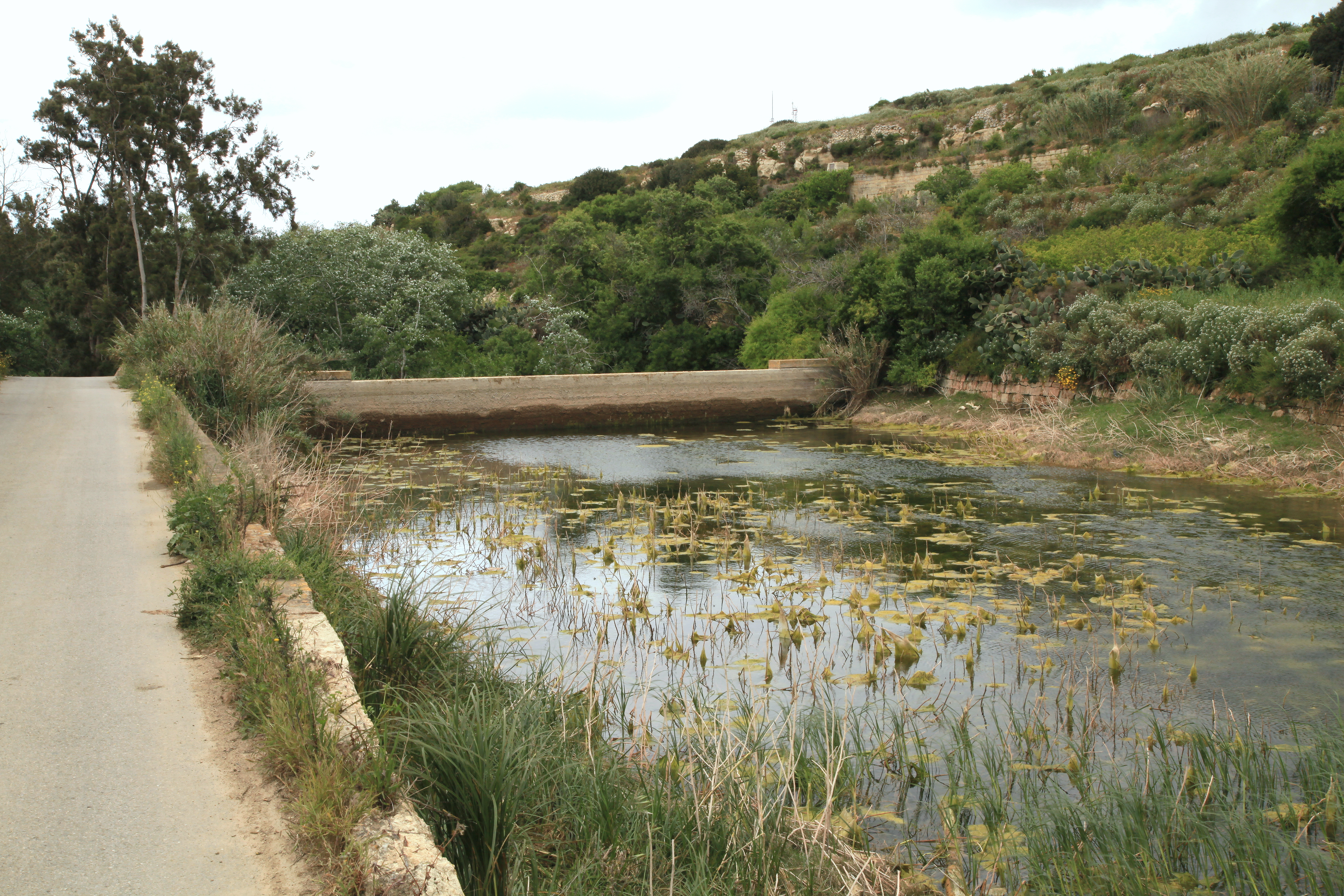 Chadwick Lakes, Wied il-Qlejgha in Rabat (Malta)